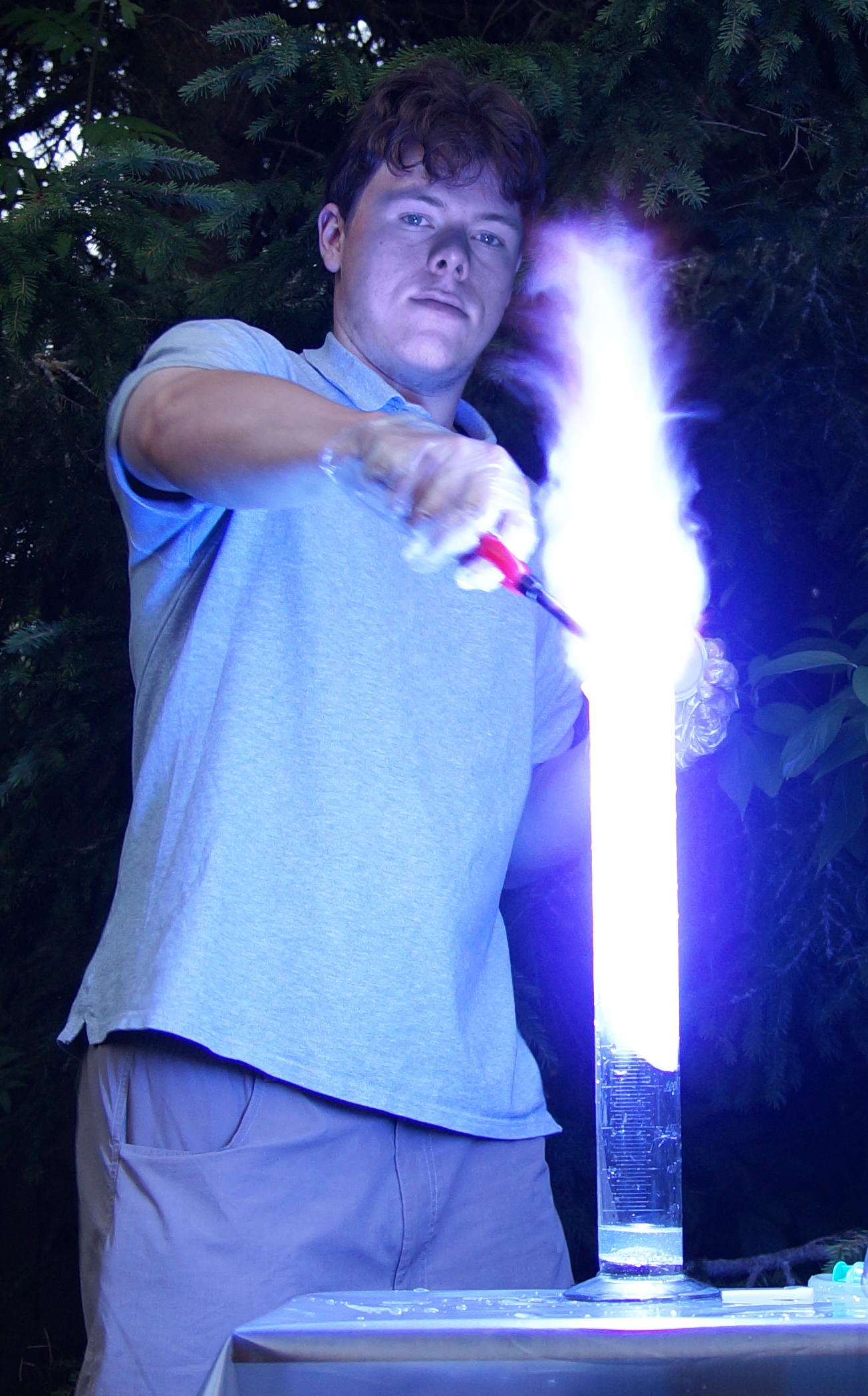 Estonian science popularizer Maxim Bilovitskiy ignites so called "Barking Dog" reaction.